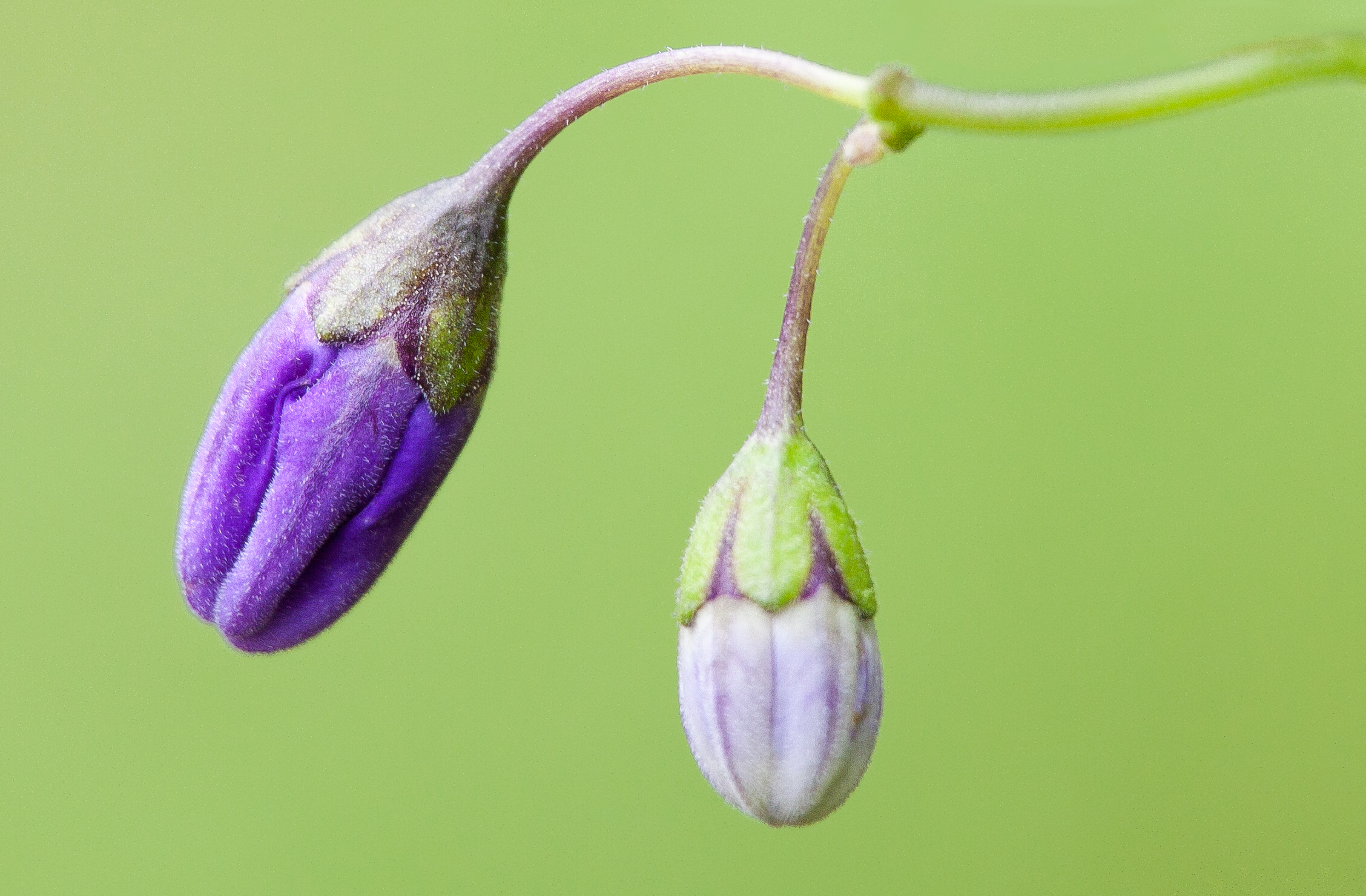 Purple Nightshade (Solanum xanthi), Southern California